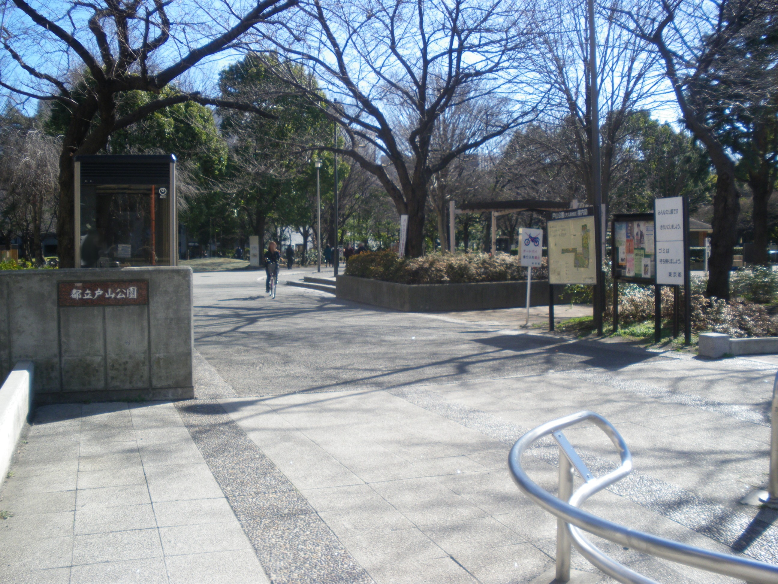 A photo of Toyama Park Okubo area(the entrance of west side),Okubo,shinjuku-ku,Tokyo,Japan.